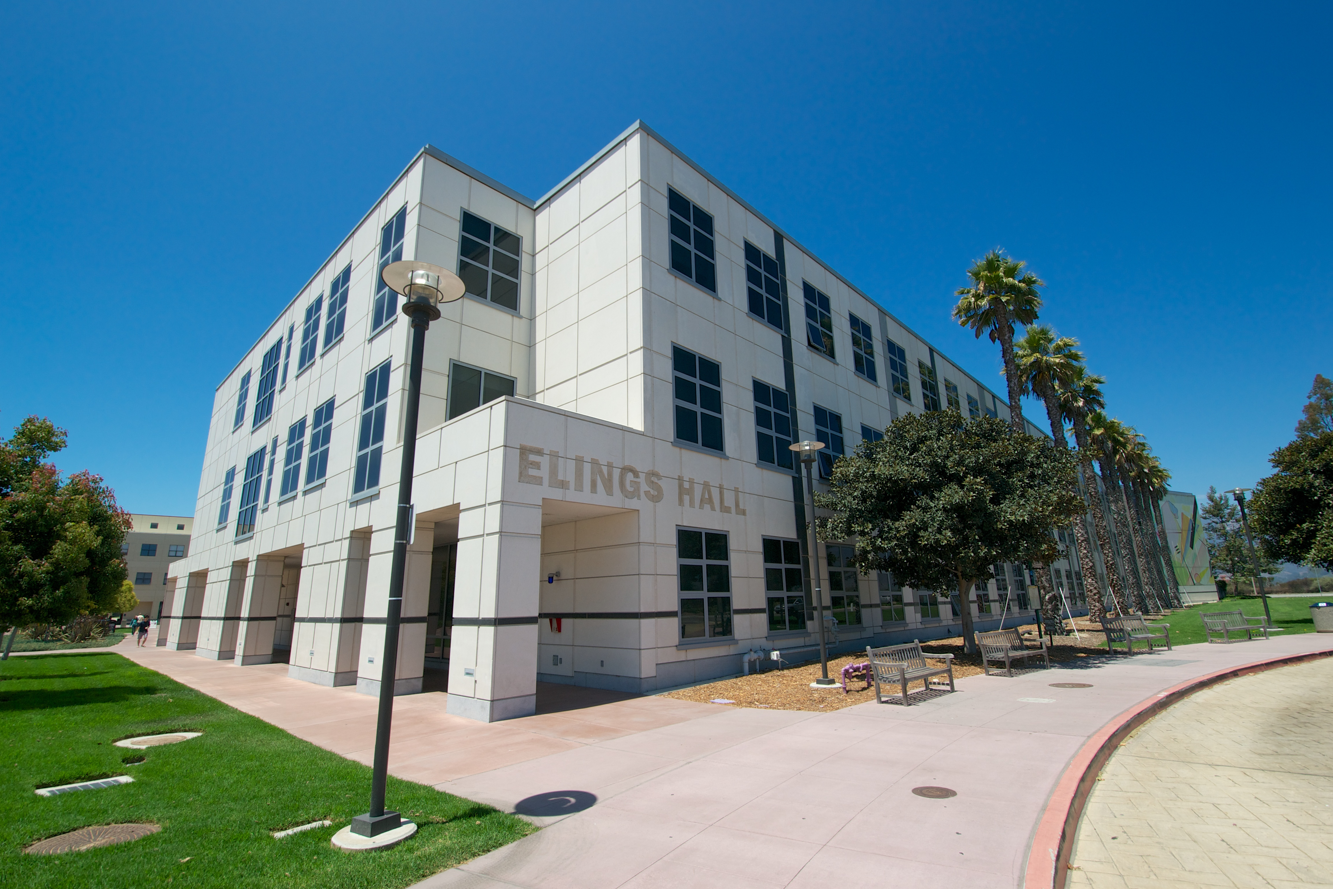 Elings Hall, home of the AlloSphere and the California NanoSystems Institute, on the campus of the University of California, Santa Barbara, August 2013